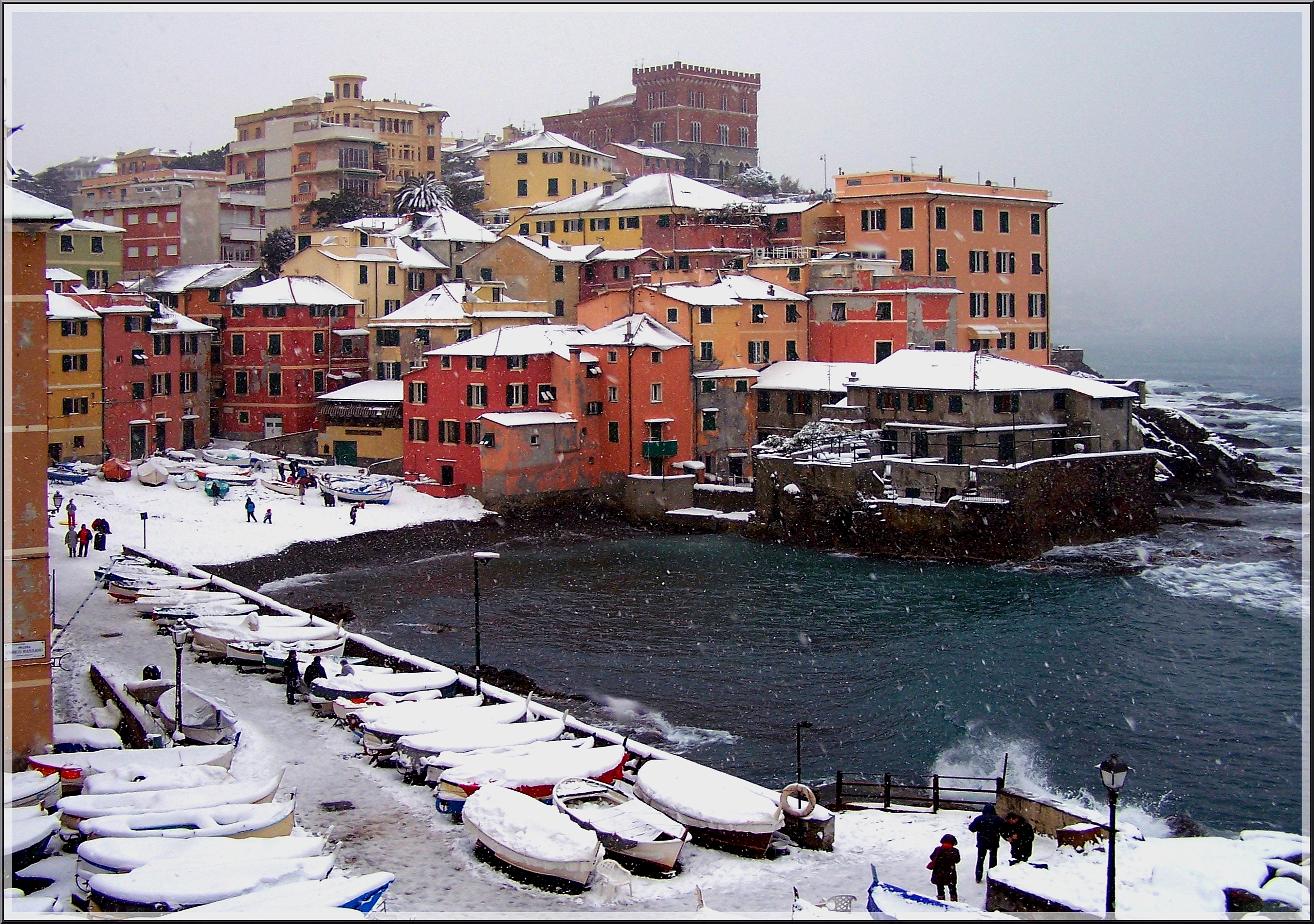 Boccadasse under the snow